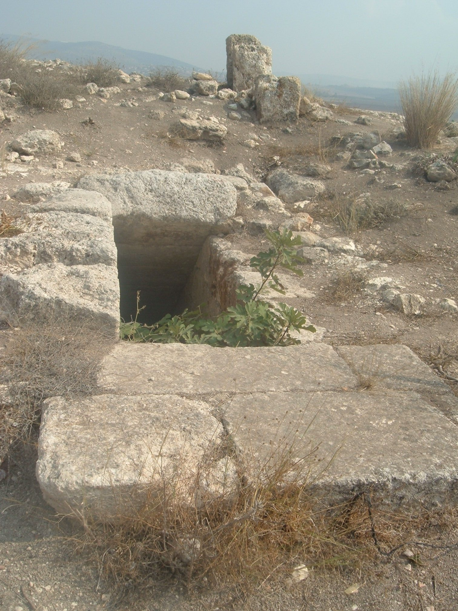 entrance to one of the underground halls in Tel Hanaton כניסה לאחד מהחללים התת קרקעיים בתל חנתון